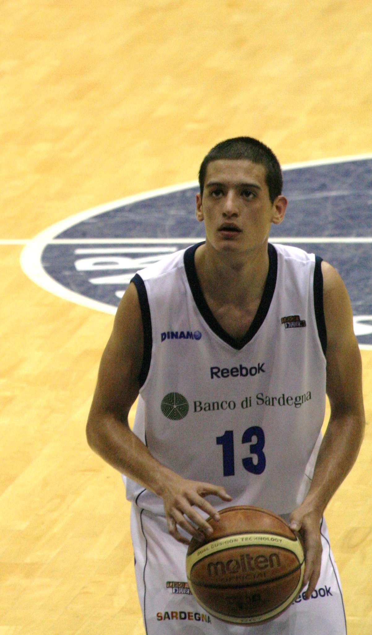 Massimo Chessa, basketball player of Pallacanestro Biella